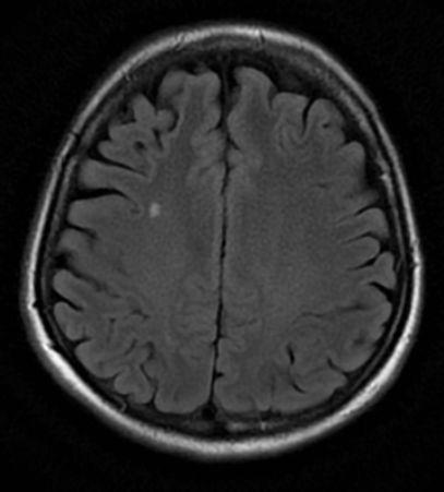 LACI lacunar cerebral infarct